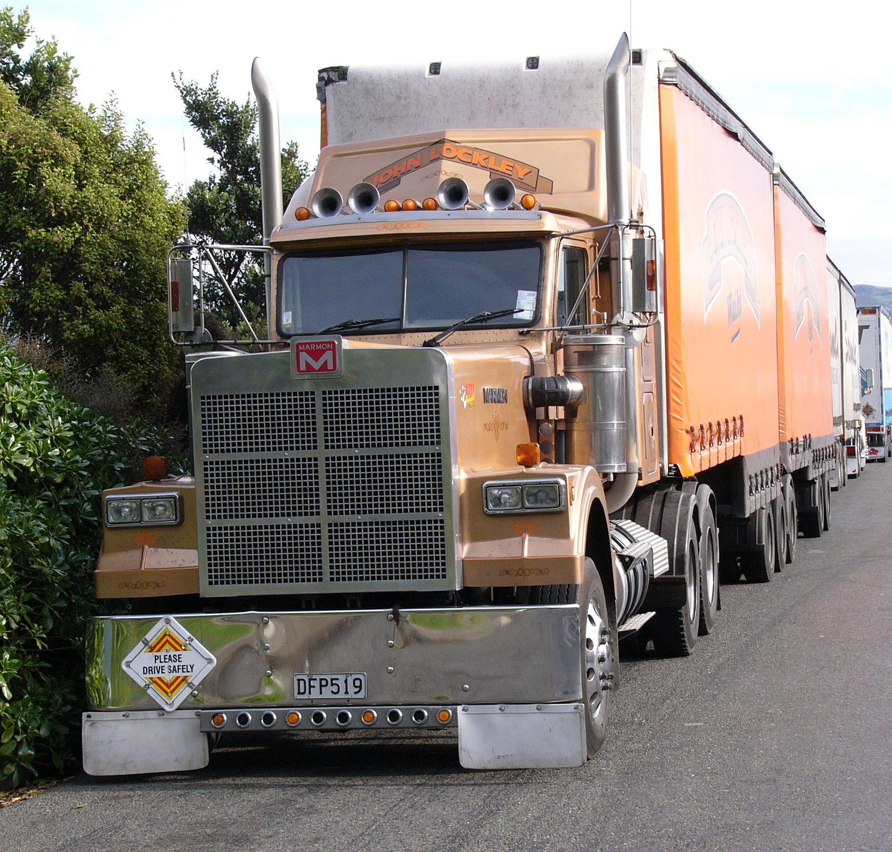 1996 Marmon P57